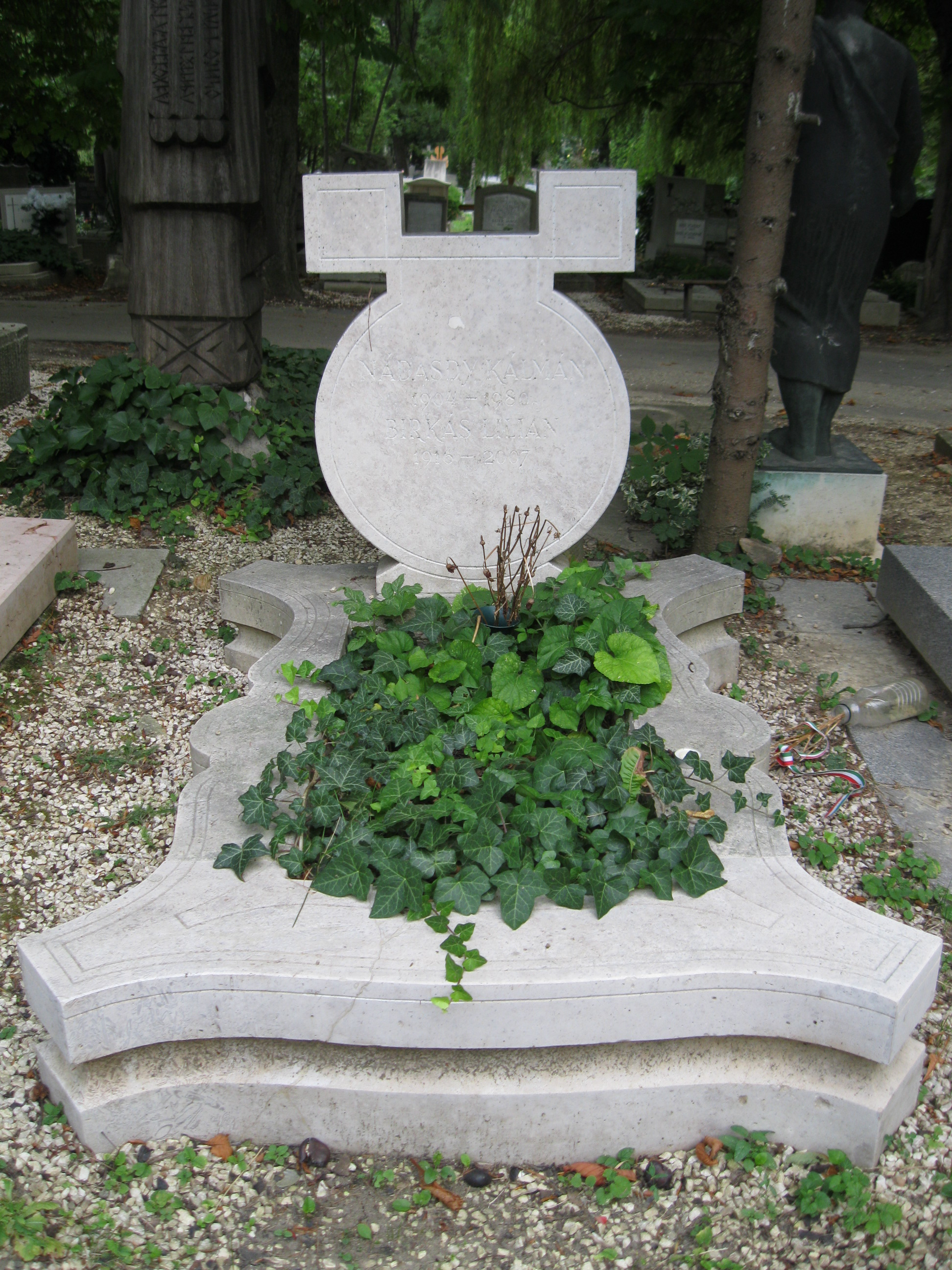 Tomb of Kálmán Nádasdy and Lilian Birkás in Farkasréti Cemetery [25-1-53]